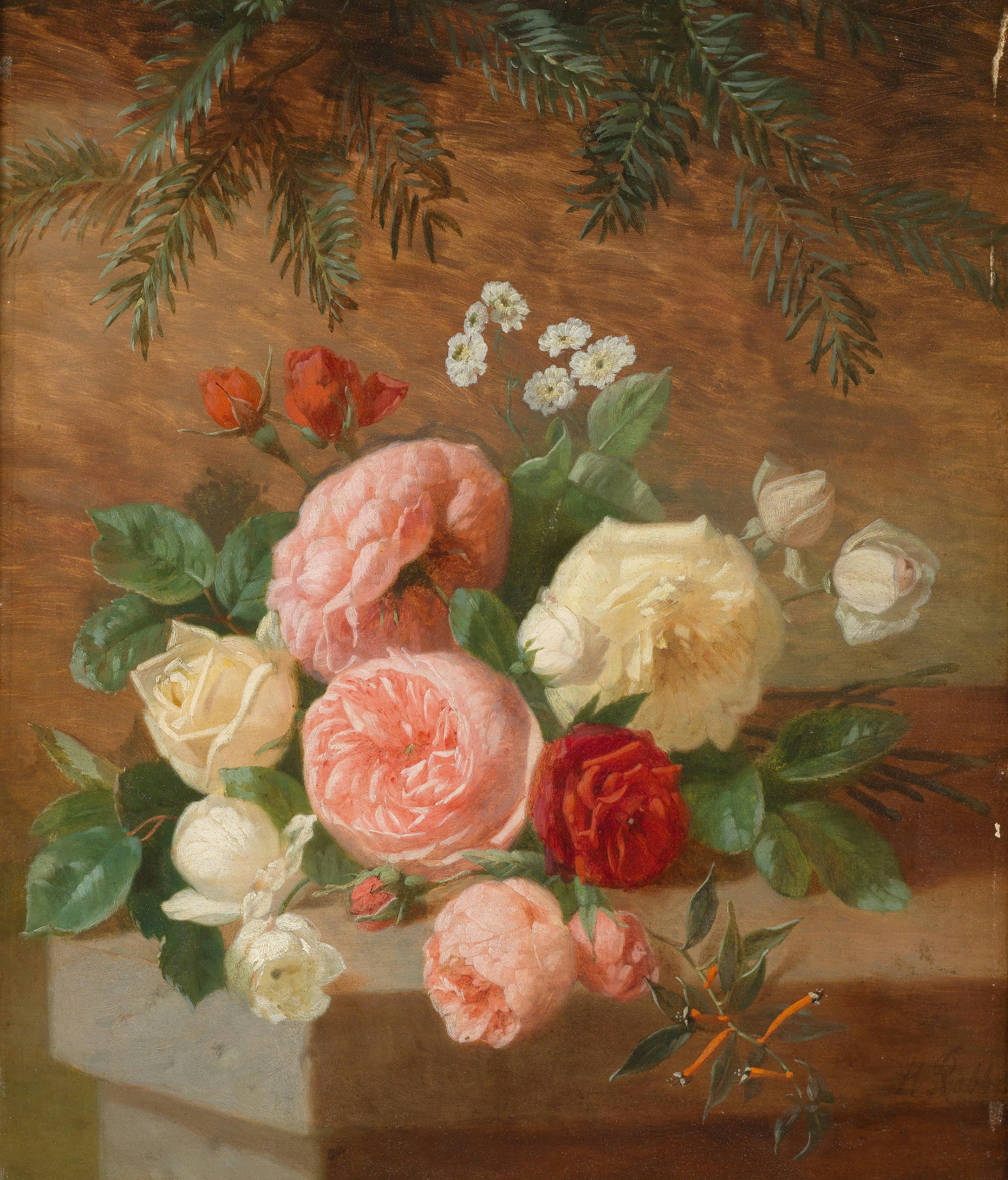 Roses on a Stone Ledge